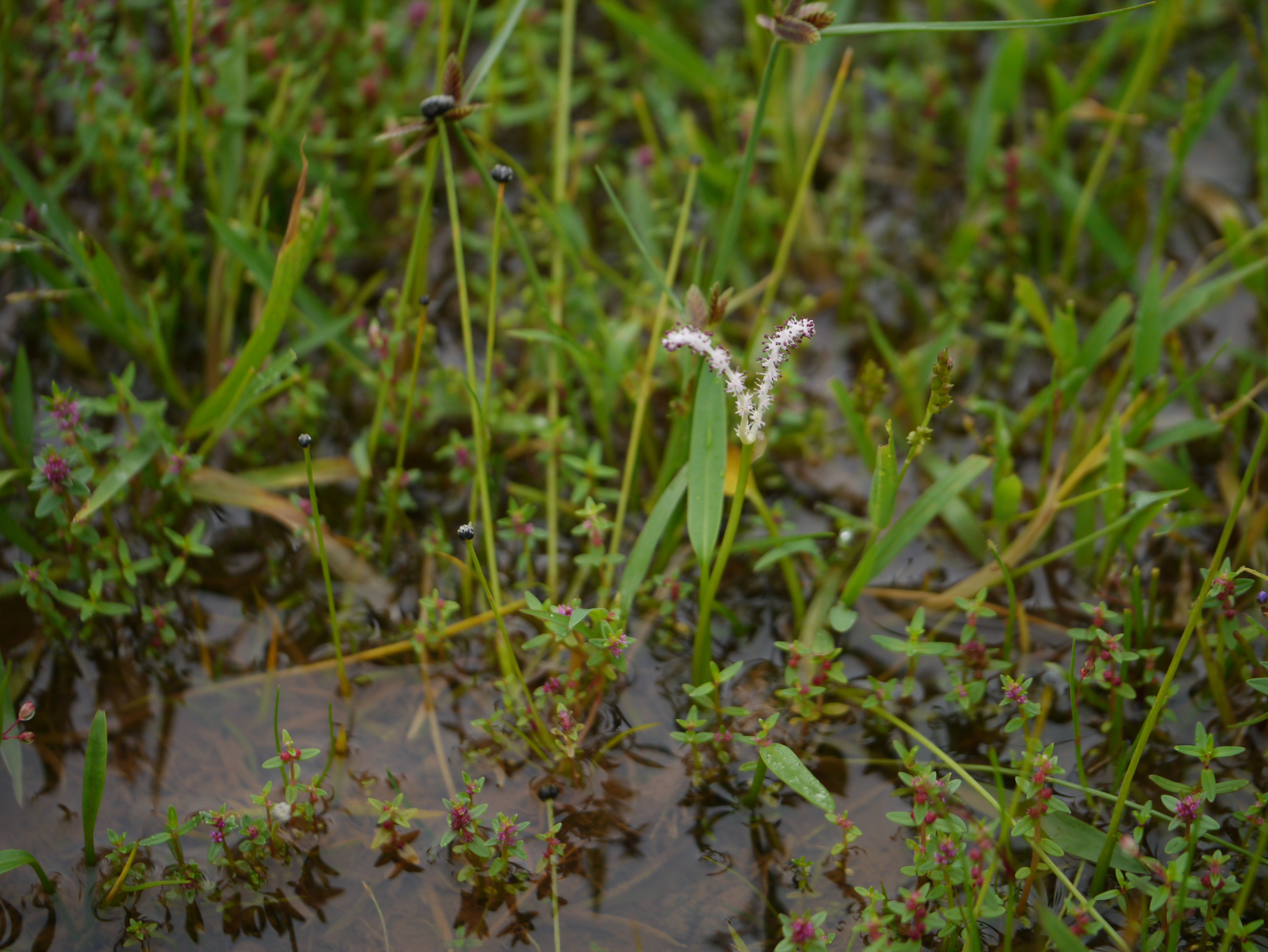 Aponogetonaceae (Aponogeton family) » Aponogeton satarensis Sundararagh., A.R.Kulk. & S.R.Yadav ah-poh-no-JEE-tun -- originally applied to a water plant found at Aquae Aponi, Italy ... Dave's Botanary suh-tah-REN-sis -- of or from Satara, district of Maharashtra state, India commonly known as: Satara aponogeton • Marathi: वायतुरा y-tura Endemic to: Western Ghats (of India) References: Flowers of India • Flowers of Sahyadri by Shrikant Ingalhalikar • The Plants List